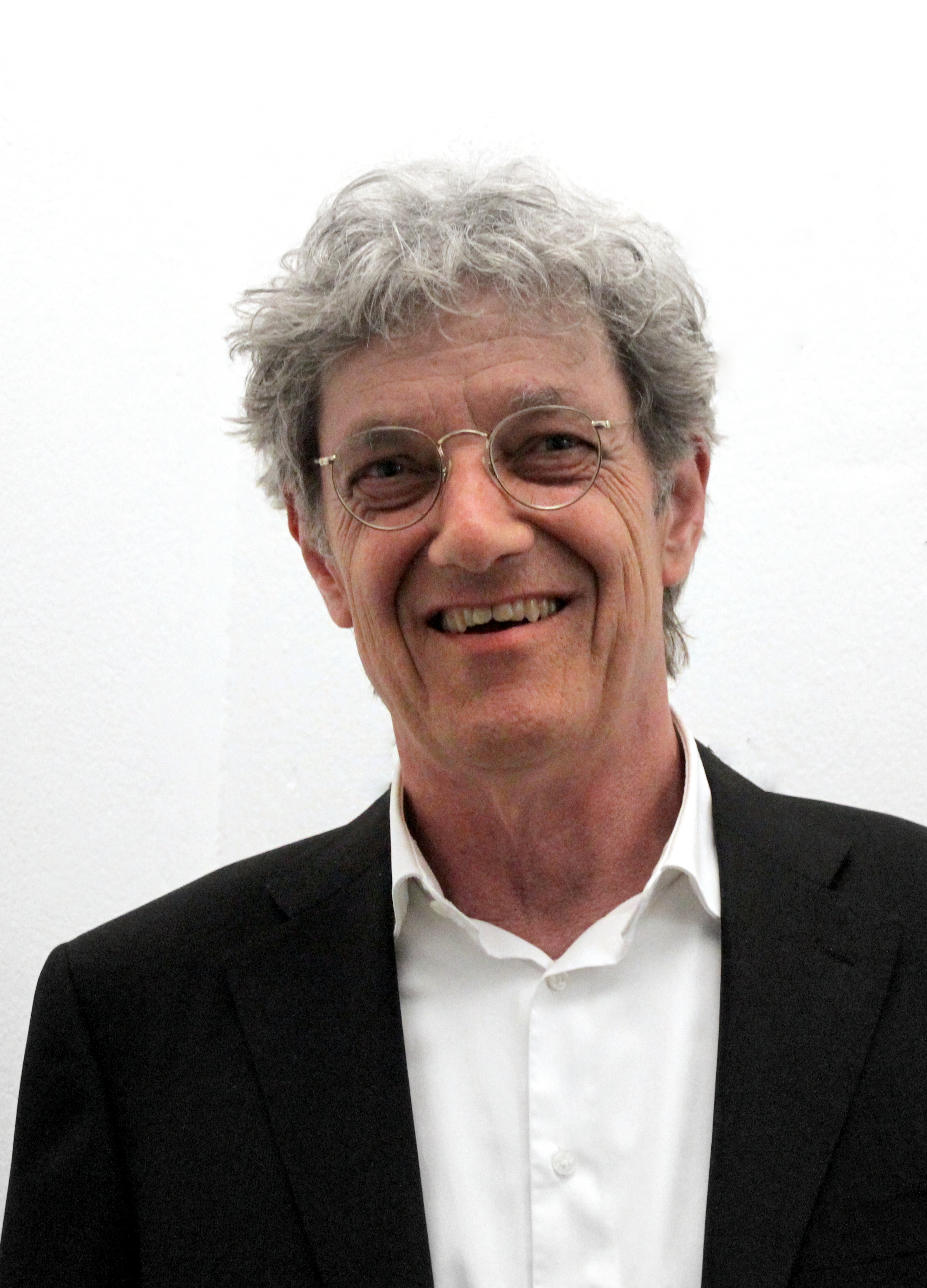 Dirk van Gunsteren in the literature house of Munich